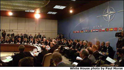 President George W. Bush speaks at the Secretary-General's office at NATO headquarters in Brussels, Belgium.